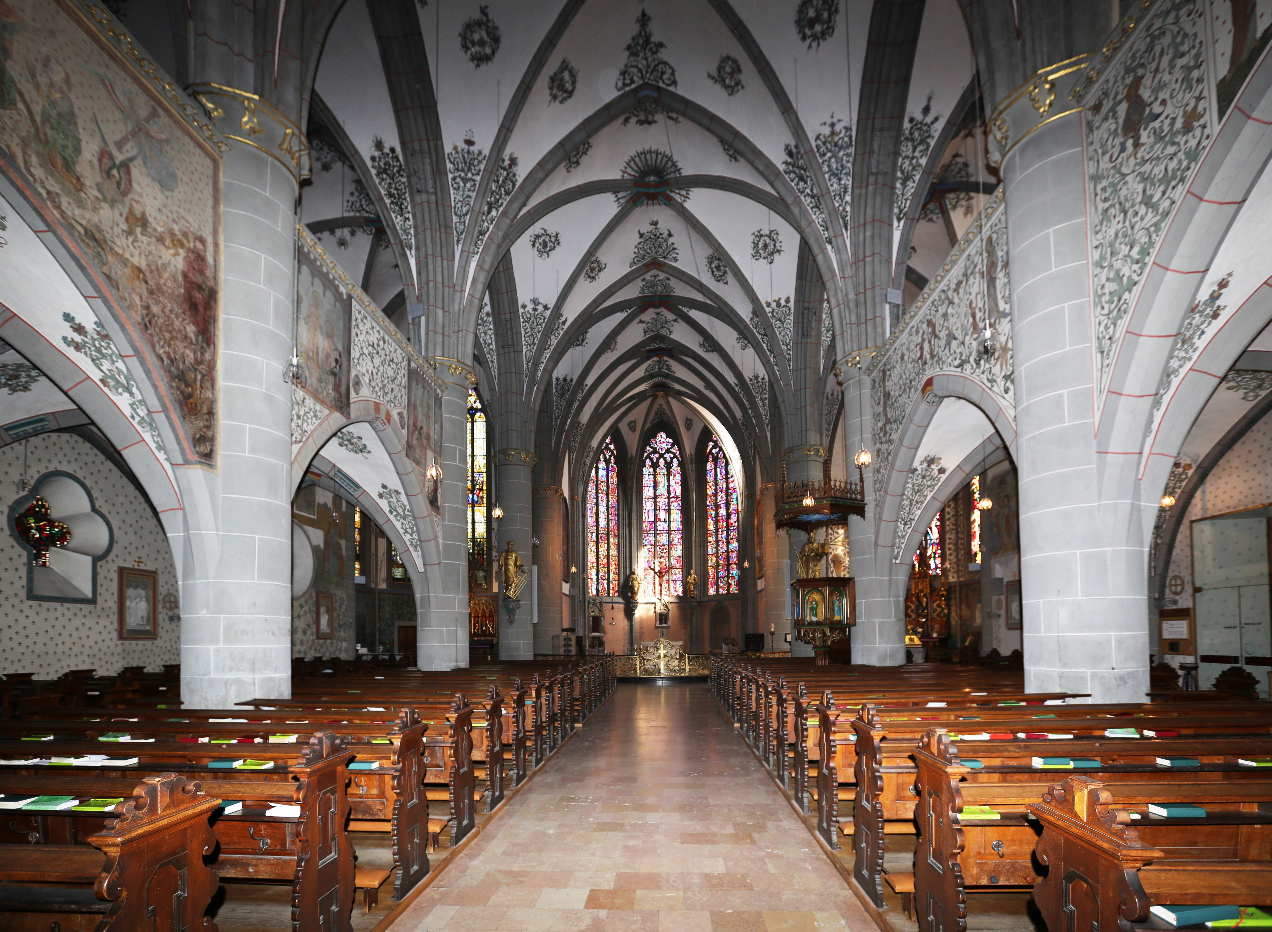 Church Of Saint Laurentius in Ahrweiler, Germany